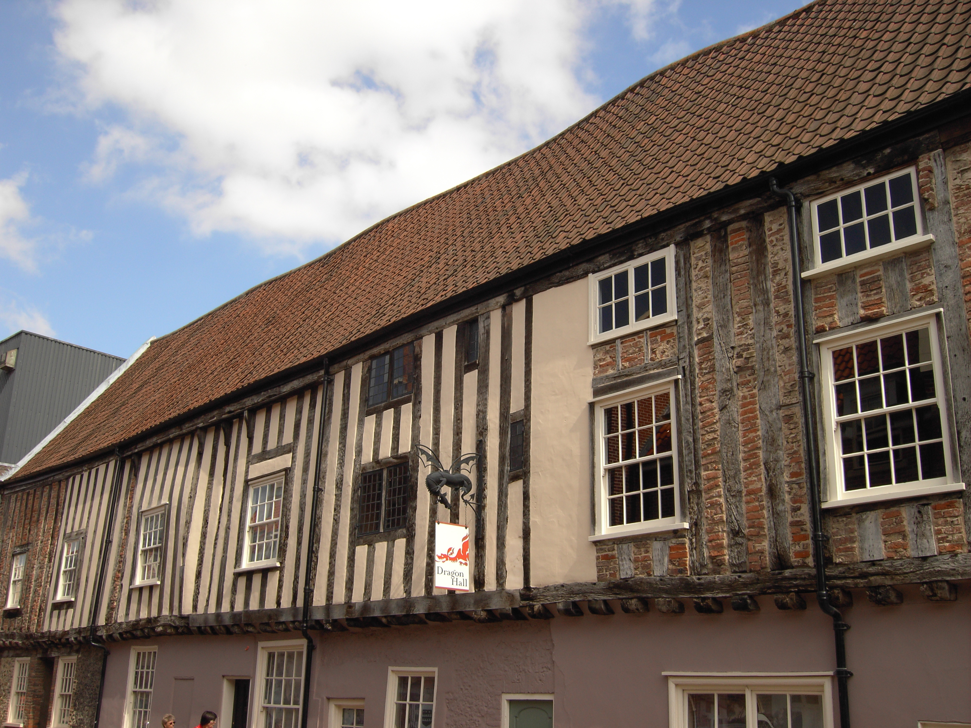 Dragon Hall, Norwich, a mediaeval merchant's house. Taken on the 2006 Sponsored Bike Ride for The Norfolk Churches Trust, 2006-09-09. View from King Street of house front, sign hanging from iron dragon reads 'Dragon Hall'.